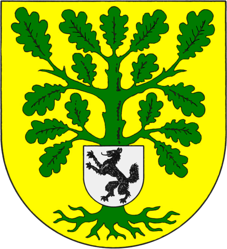 Coat of arms of the municipality Altenholz in Schleswig-Holstein, Germany.